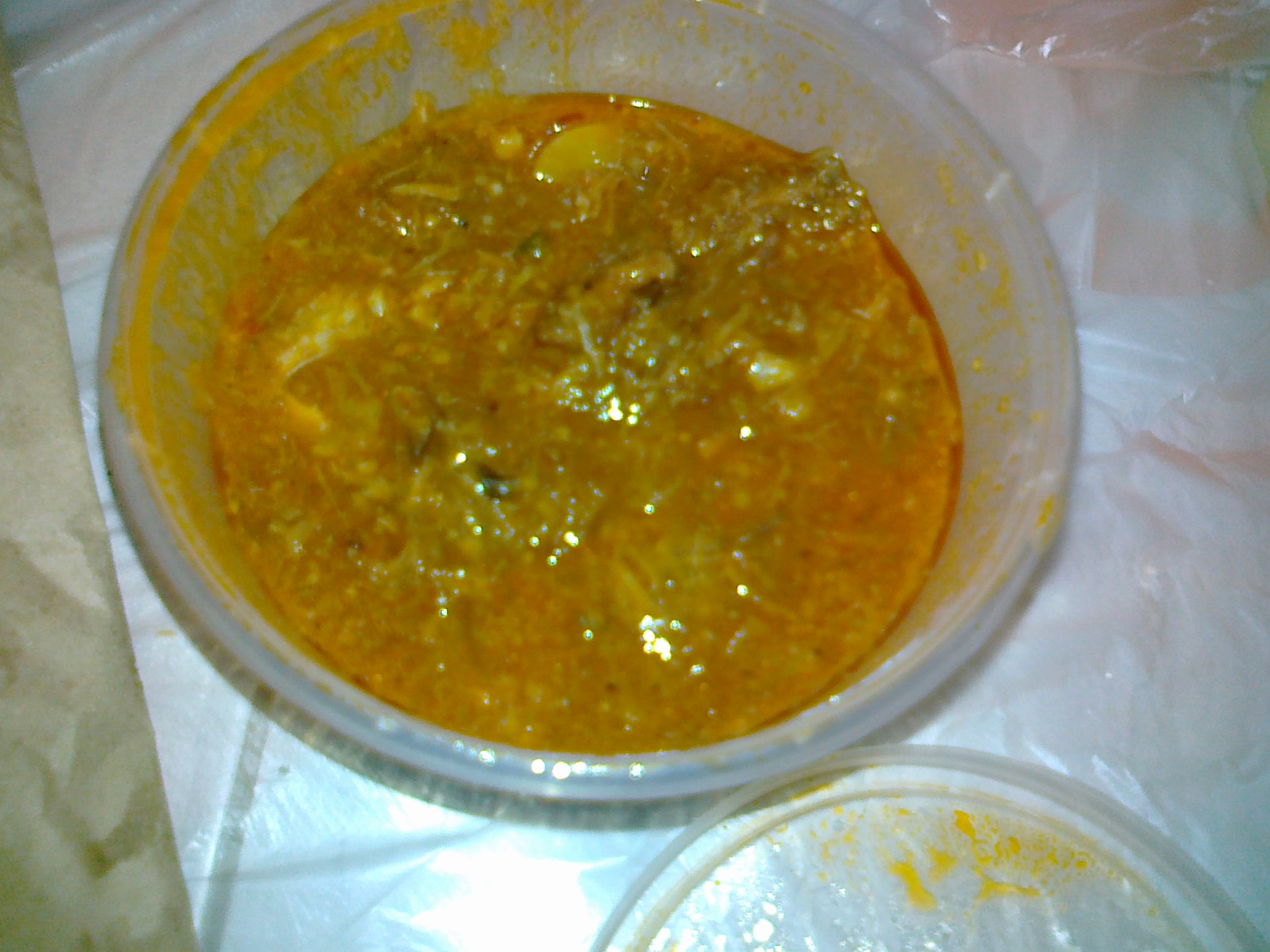 Takeaway Fahsa.